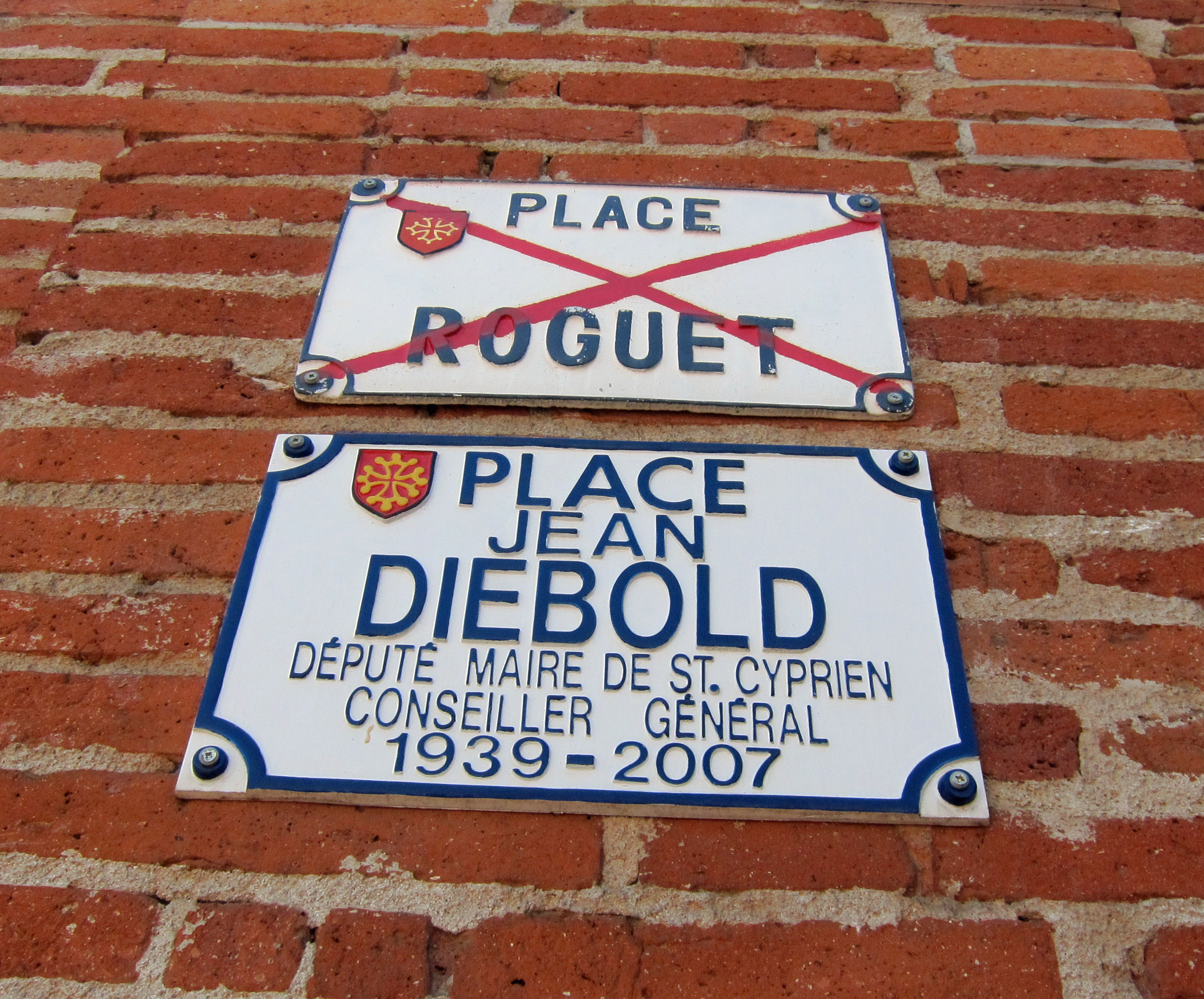 Toulouse (Haute-Garonne, France) : La place Roguet renommée Place Jean Diebold.